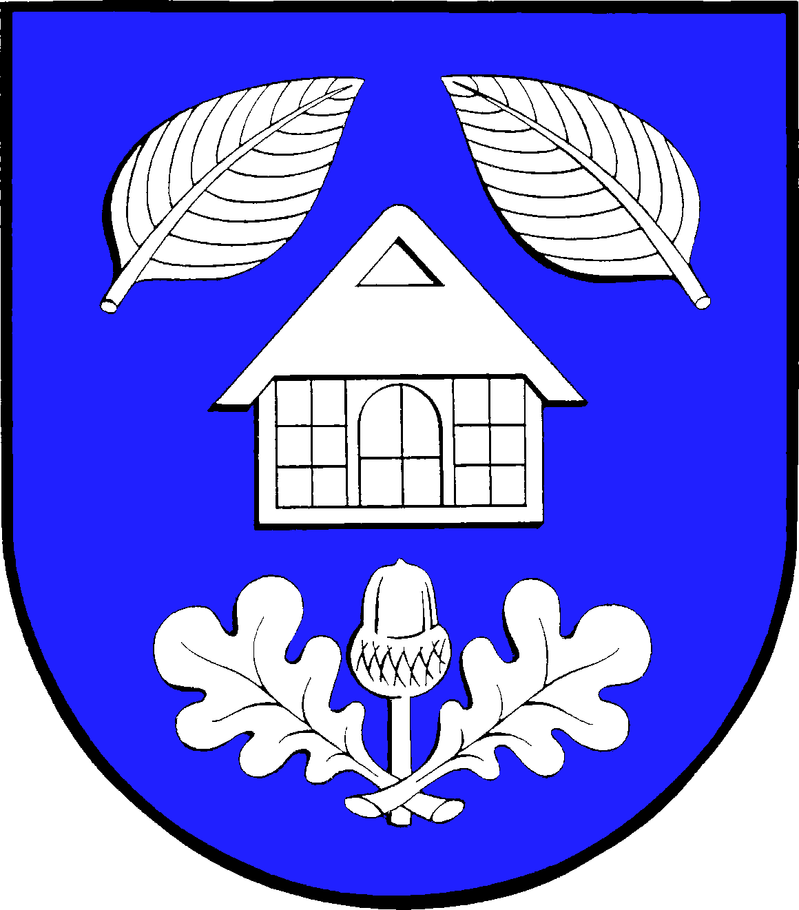 Coat of arms of the municipality Holzbunge in Schleswig-Holstein, Germany.